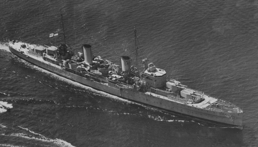 Aerial starboard view of the cruiser HMAS Perth. Note the director for the main armament behind the bridge. Behind and above it is the high angle control position for the 4 inch guns. Searchlights flank the fore funnel while the eight 4 inch Mark XVI guns in twin Mark XIX mountings are grouped about the after funnel. The catapult is not fitted to its turntable between the funnels to which are attached range finding baffles. The crew are manning the side for entering harbour.